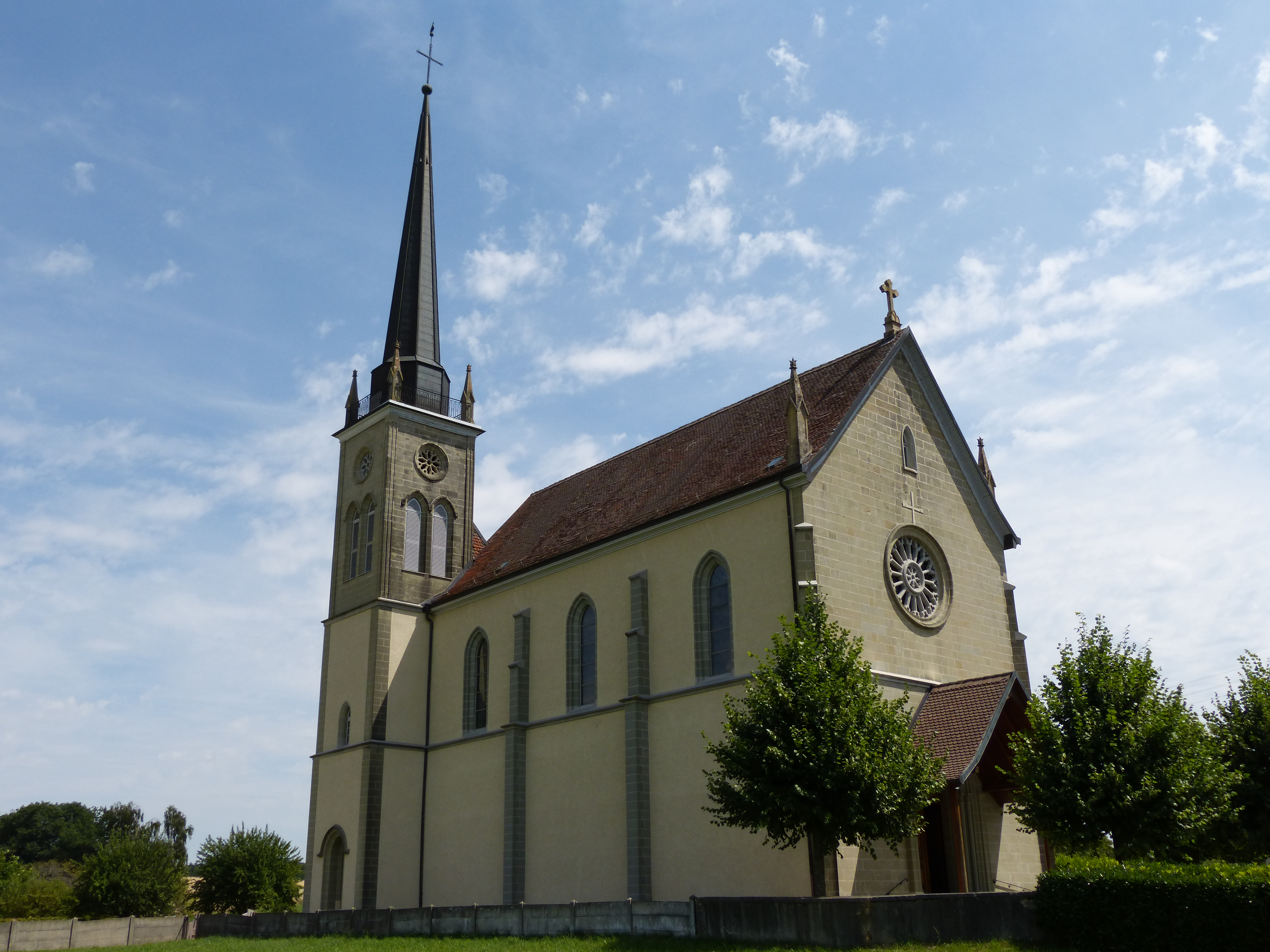 Church Saint-Étienne in Bottens.